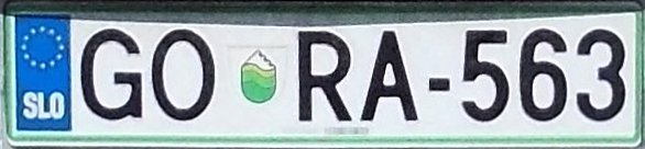 Car in Rifnik Cropped File:Rifnik 01.jpg.